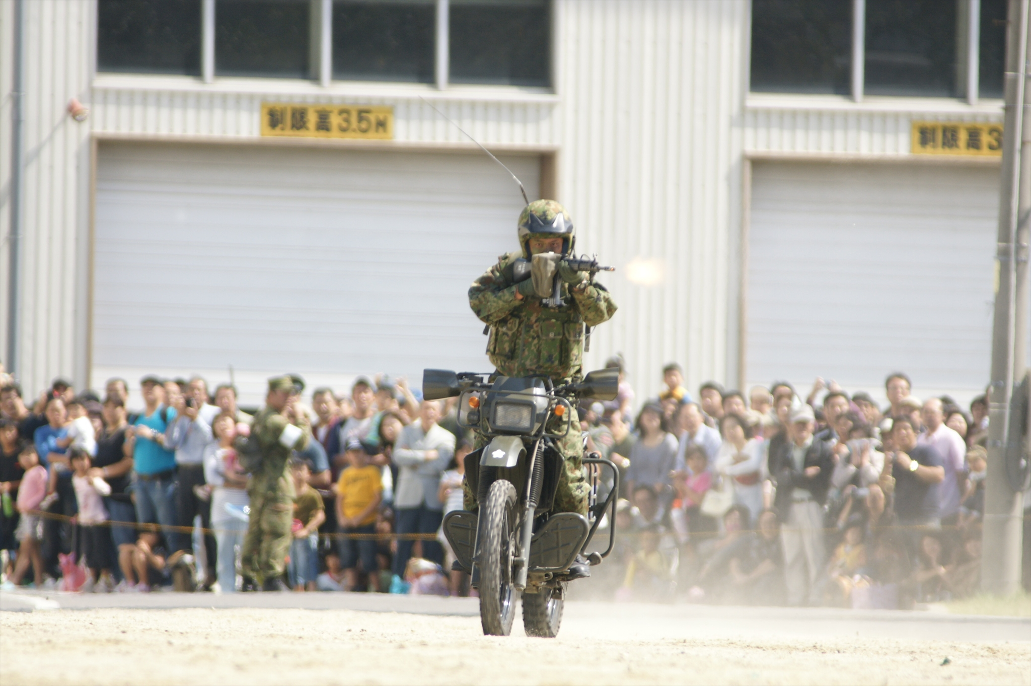 Title １０Ｄ：訓練展示_R.jpg Album Events and Public Relations (イベント・行事・広報活動等) 記念日行事における訓練展示